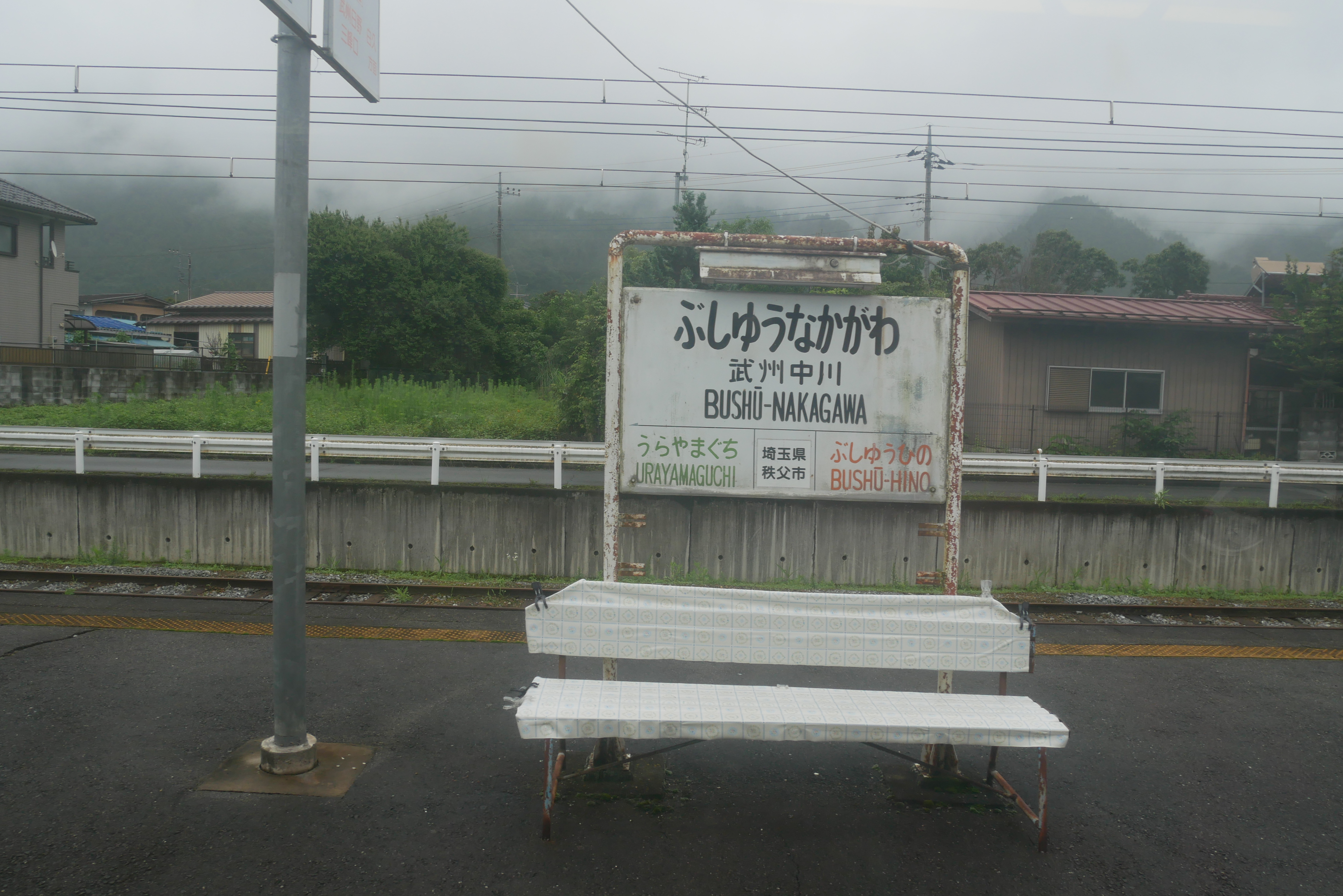 Bushū-Nakagawa Station platform (武州中川駅のホーム)